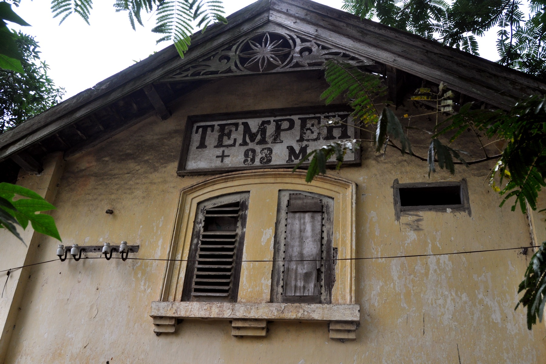 Ex Tempeh train station, closed since 1988, in Lumajang, East Java, Indonesia. Name board and elevation.